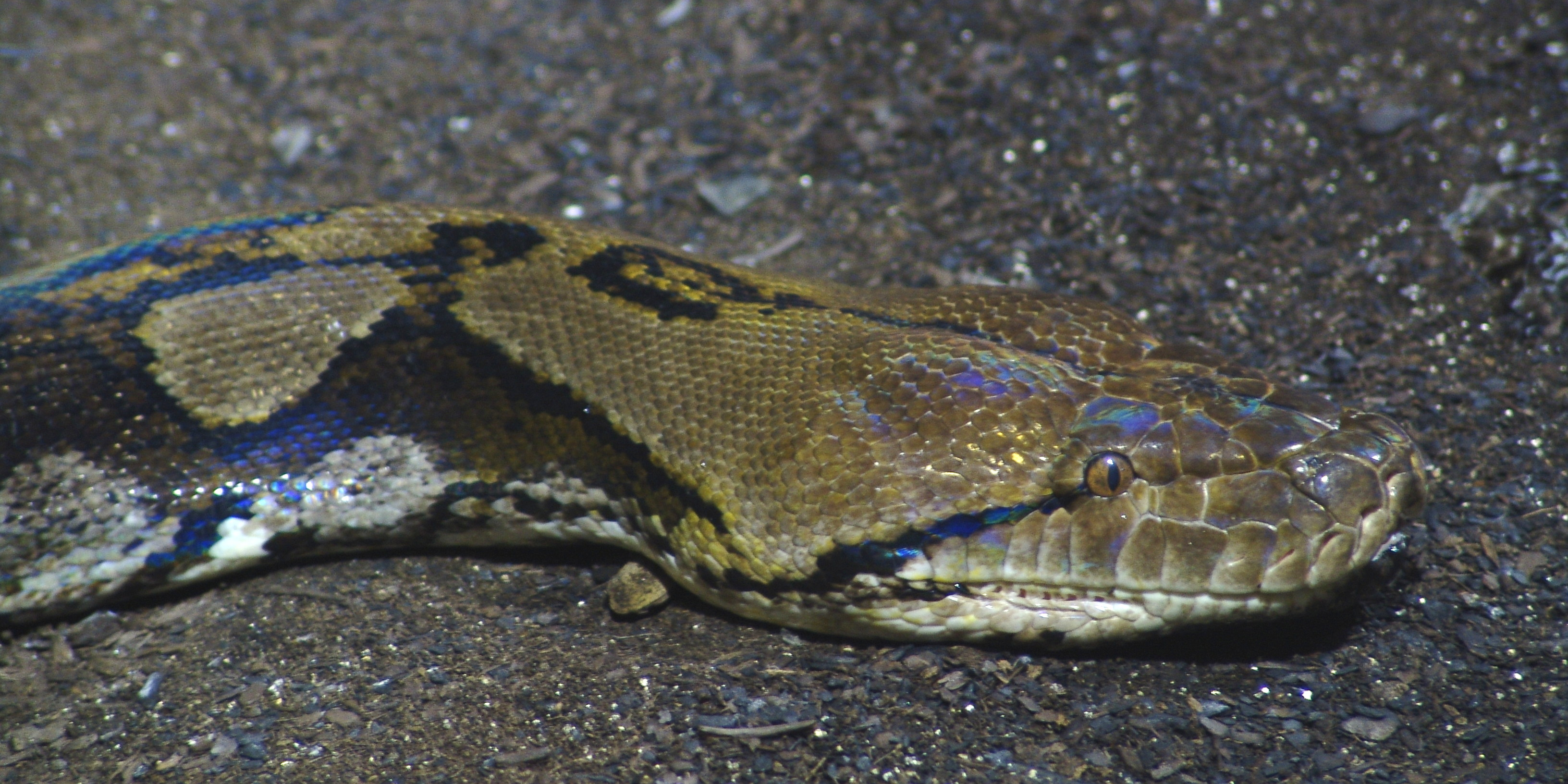 Reticulated Python at Wilmington's Serpentarium.